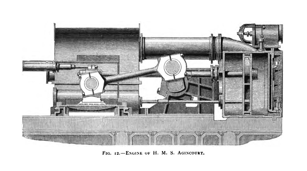 Cutaway view of the return connecting rod (ie "back-acting") engine of HMS Agincourt. To the right is a cutaway view of the engine cylinder from which extends a long piston rod offset from the cylinder centre. The piston attaches to a crosshead on the other (left) side of the engine, from which the connecting rod returns to rotate the centrally located crankshaft.